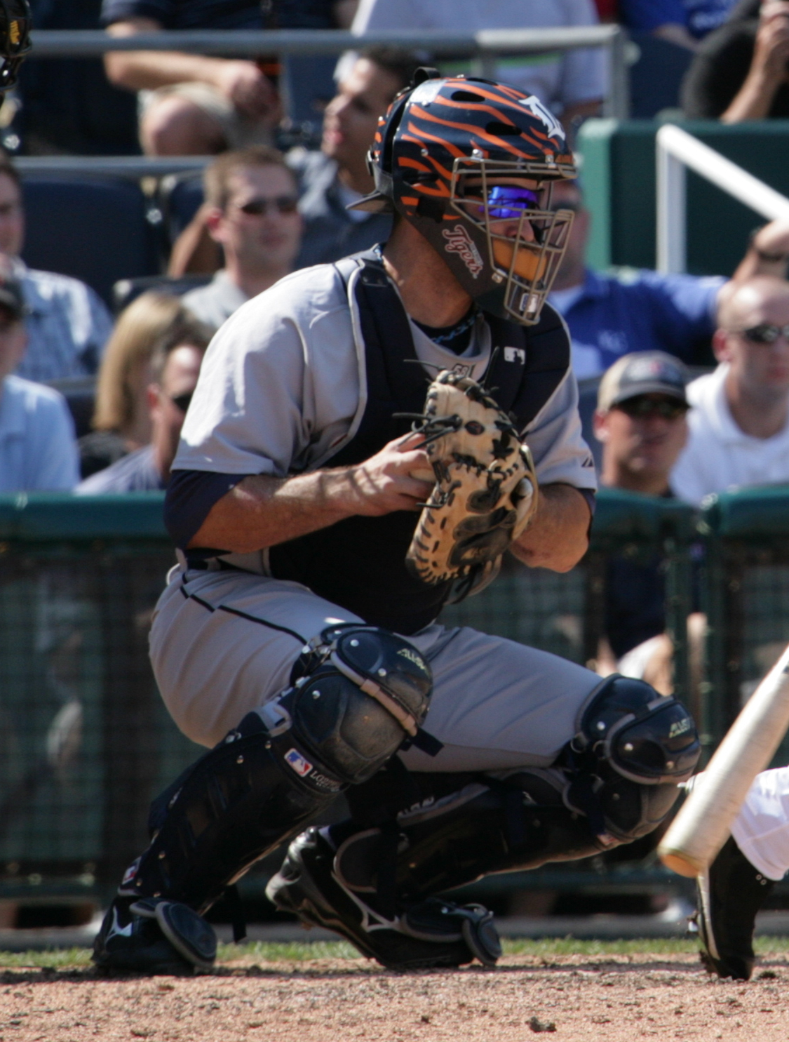 Mike Rabelo playing for the Detroit Tigers in 2007